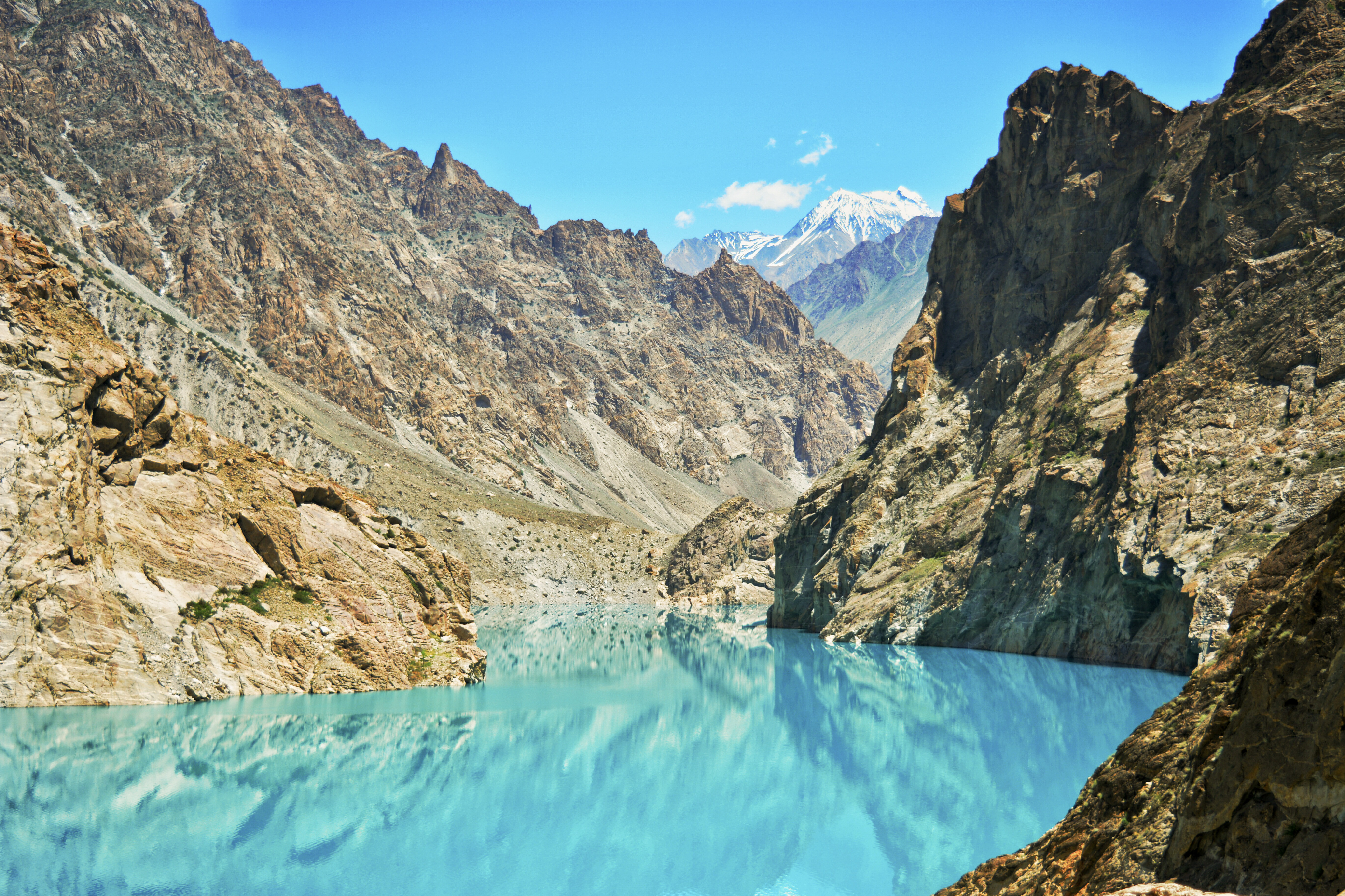 Attabad Lake also known as Gojal Lake is located near Hunza Valley, one naturally blessed part of northern areas of Pakistan. The lake gets its influx from Hunza River (2,800 cu ft/s).The maximum length of the lake is 13 miles (21 km) and the depth is 358 feet (109 m). The total water volume is 330,000 acre feet. The accidental creation of Lake Attabad was due to the land sliding which had some severe consequences including the abandoning of several villages and mortality of twenty village inhabitants in 2010. Although, later on it turned out to be a blessing in disguise, presently it is a popular summer destination for tourists